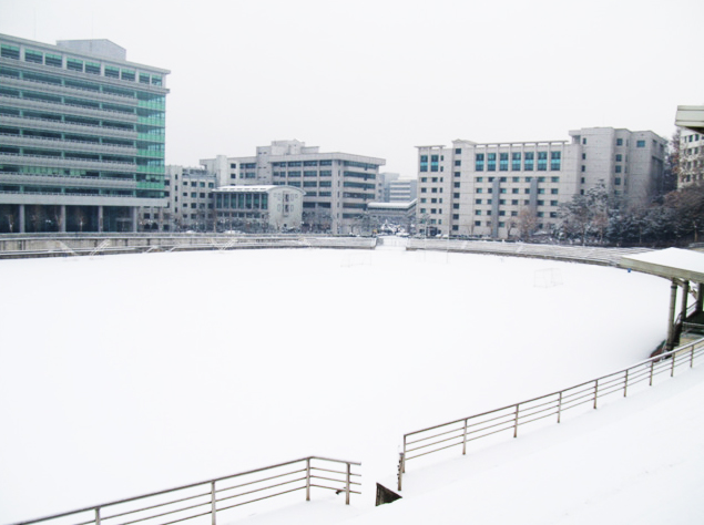 Hanyang University : covered with snows